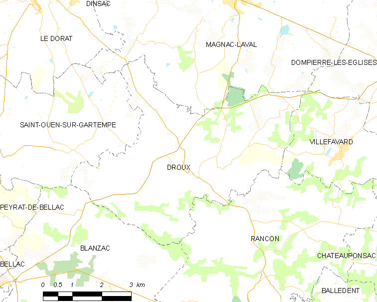 Map of French municipality Droux